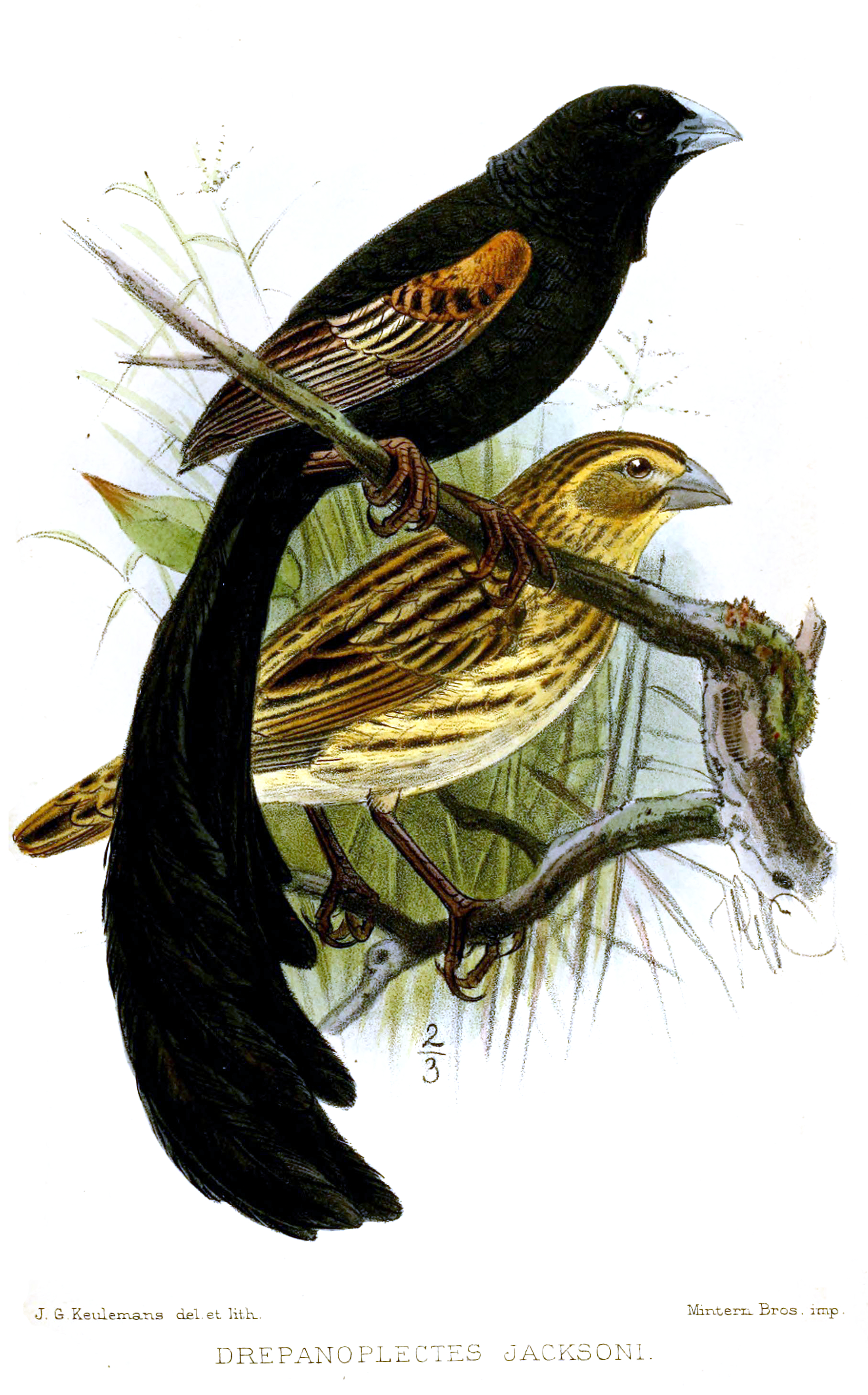 Drepanoplectes jacksoni = Euplectes jacksoni